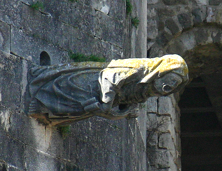 Detail of the Girona's Cathedral. Girona, Catalonia (Spain)